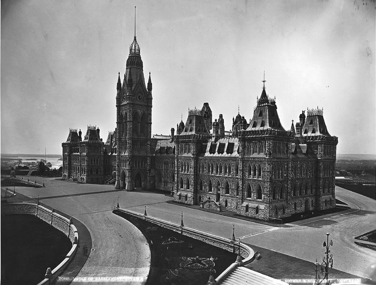 Photograph, House of Parliament, Ottawa, ON, about 1878, Notman & Sandham, Silver salts on glass - Wet collodion process - 20 x 25 cm